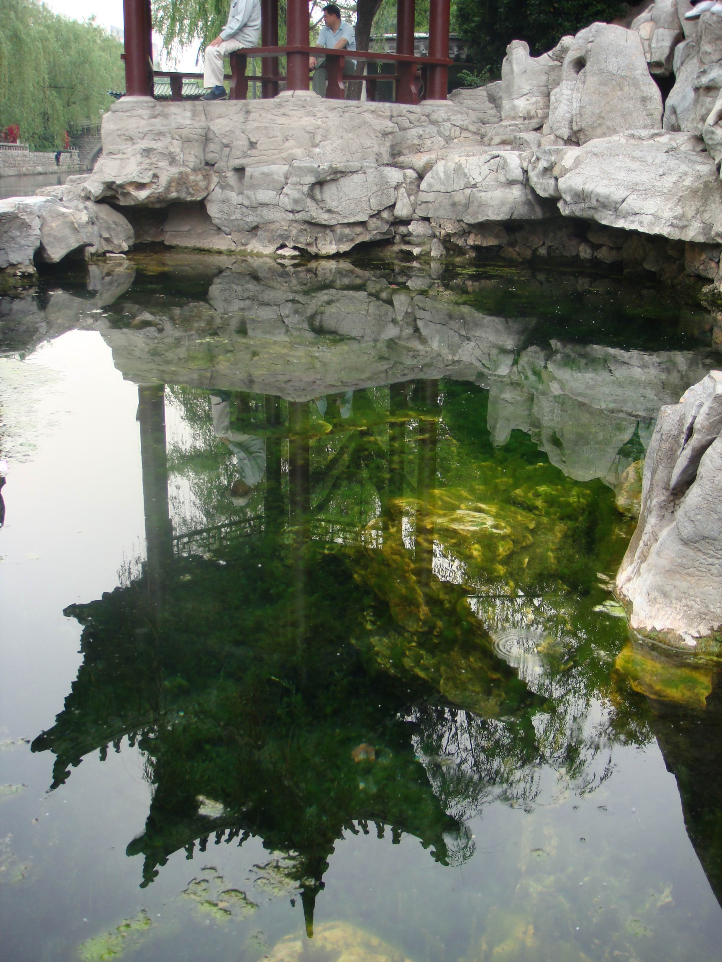 Nine Women Spring in Jinan，located at the foot of the Liberation Pavilion in Huancheng Park.